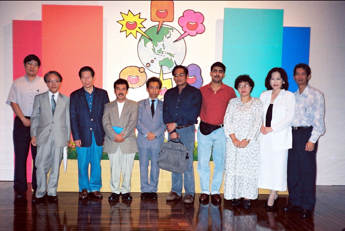 Delegates of 3rd Asian Cartoon Exhibition, held at Tokyo, in July1997, organized by The Japan Foundation Asia Center. L2R : Tian-Cheng (China), Shimizu Isao (Art Historian), Kumita Ryu (Japan), Prie GS (Indonasia), U Shwe Min Tha (Myanmar), Rong Prapasanobon (Thailand), Shekhar Gurera (India), Cabai (Malaysia), Minami Kumiko (Japan), Norman B Isaac (The Phillippines)